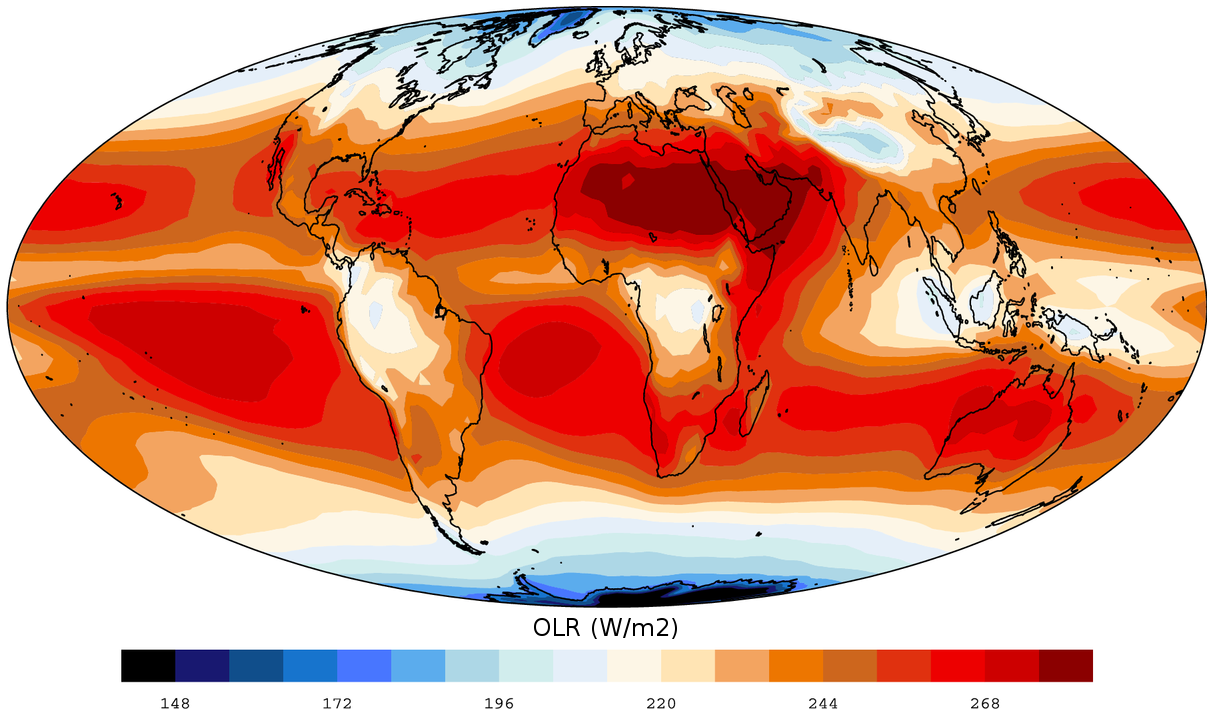 1979-1995 mean Outgoing longwave radiation. Data